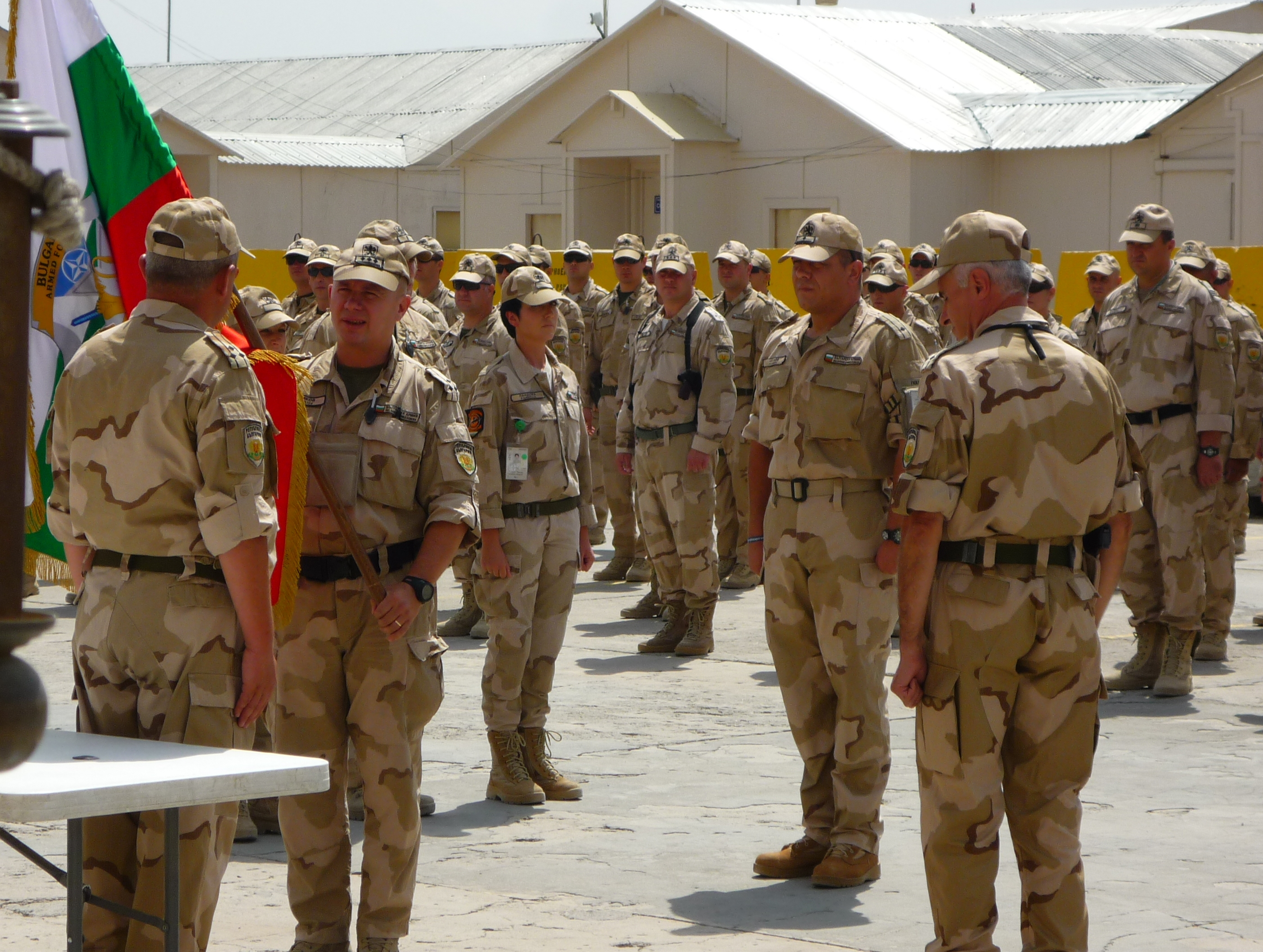 18 to 19 Bulgarian Contingent NATO ceremony